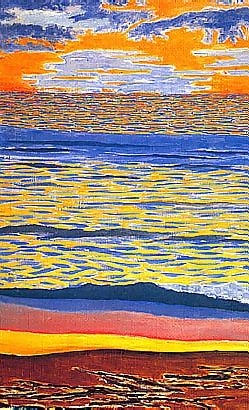 "Sea View", by Nikolai Kulbin. Painted in the 1900s. Oil on canvas. State Russian Museum.